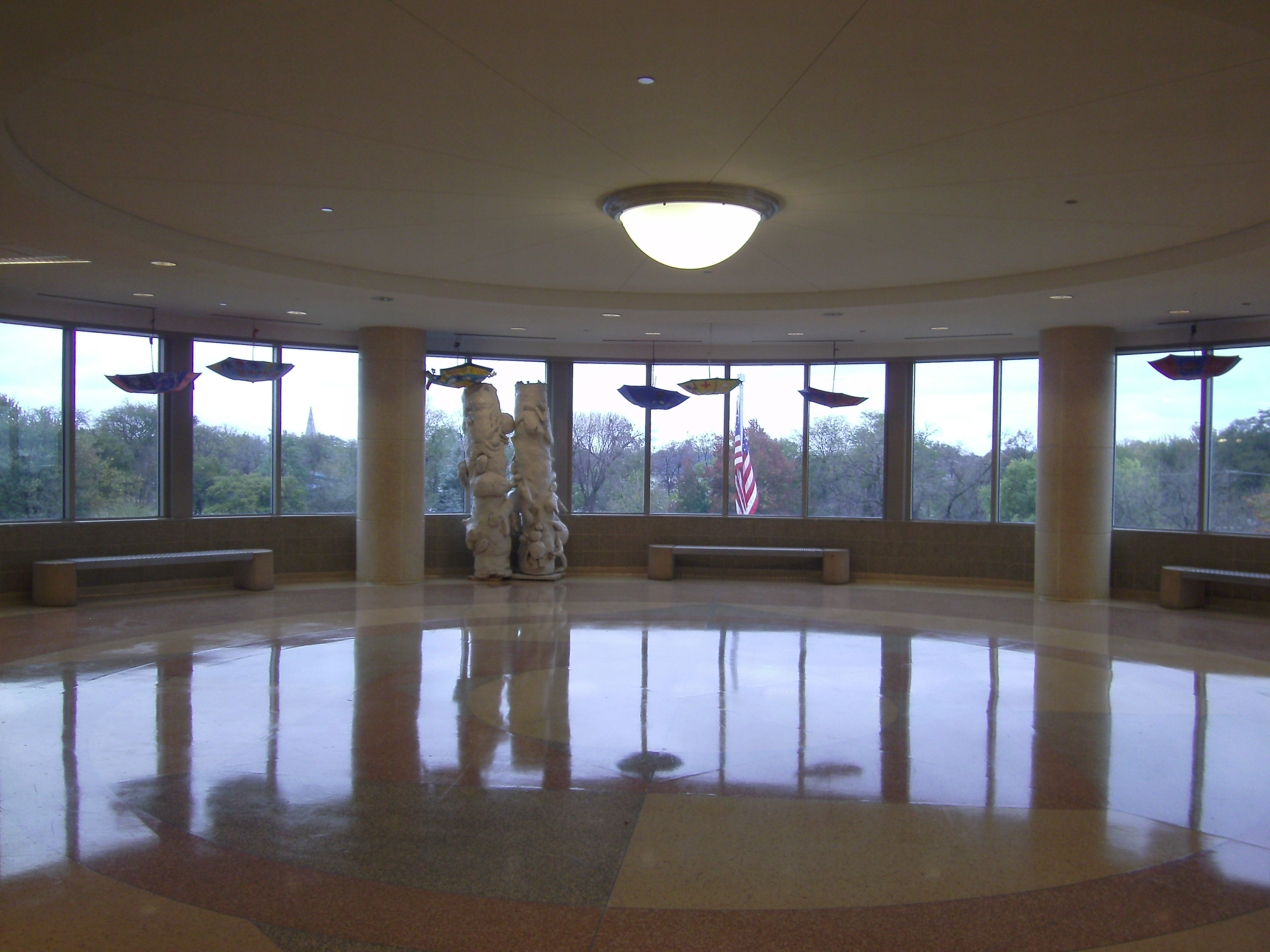 One of gwendolyn brooks college prep's indoor glass rotundas